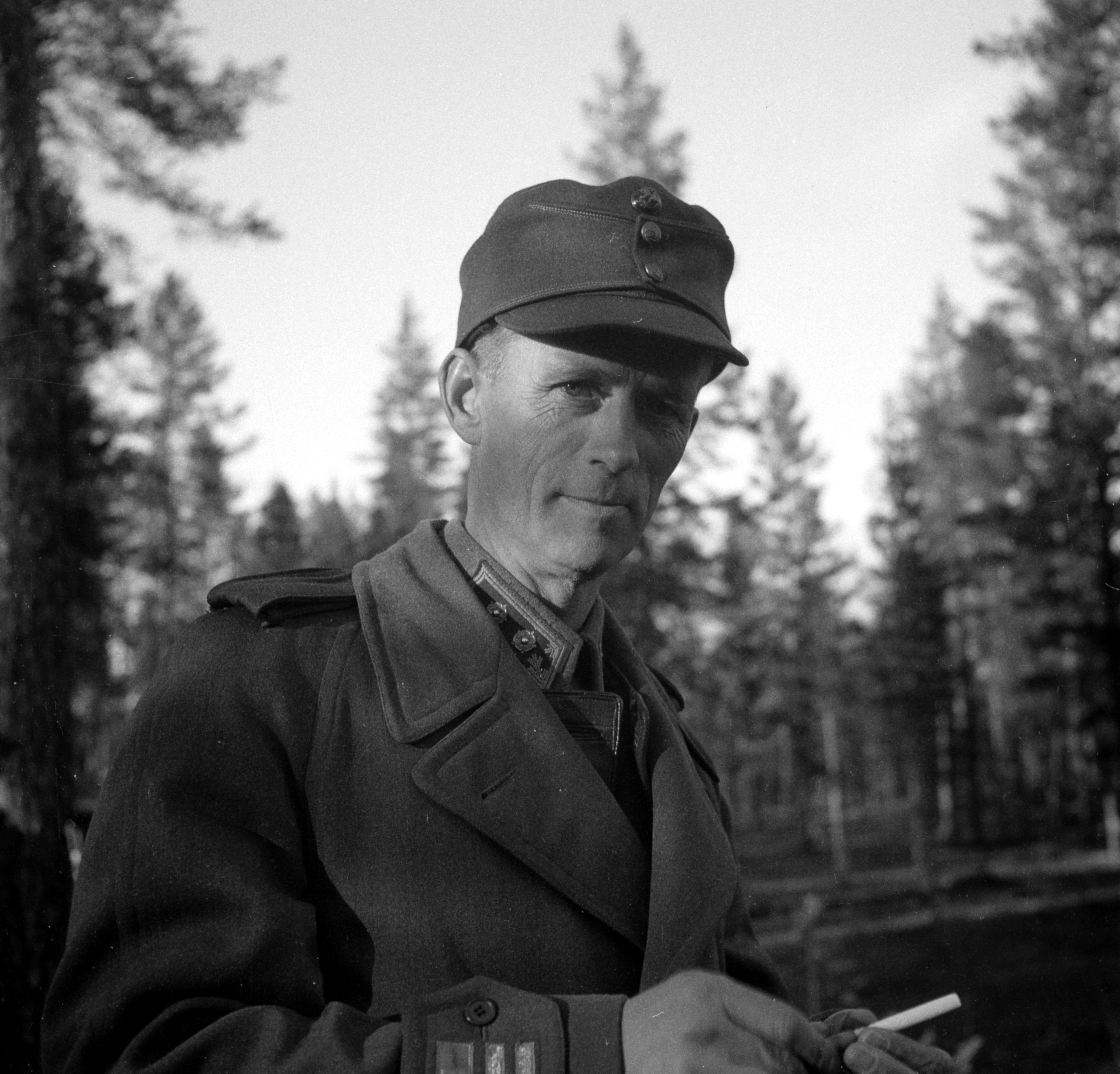 Photograph of the Finnish shooter and lieutenant-colonel Albert Ravila (1897–1980).